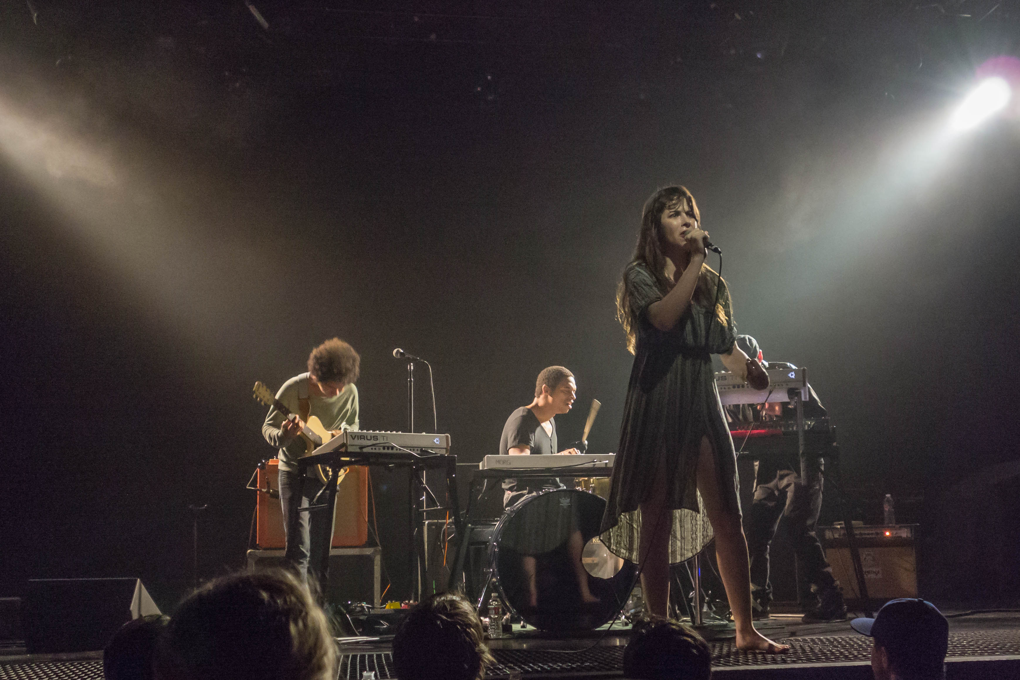 Bosnian Rainbows at The Triple Door, October 19, 2012. Left to right: Omar Rodríguez-López, Deantoni Parks and Teri Gender Bender.